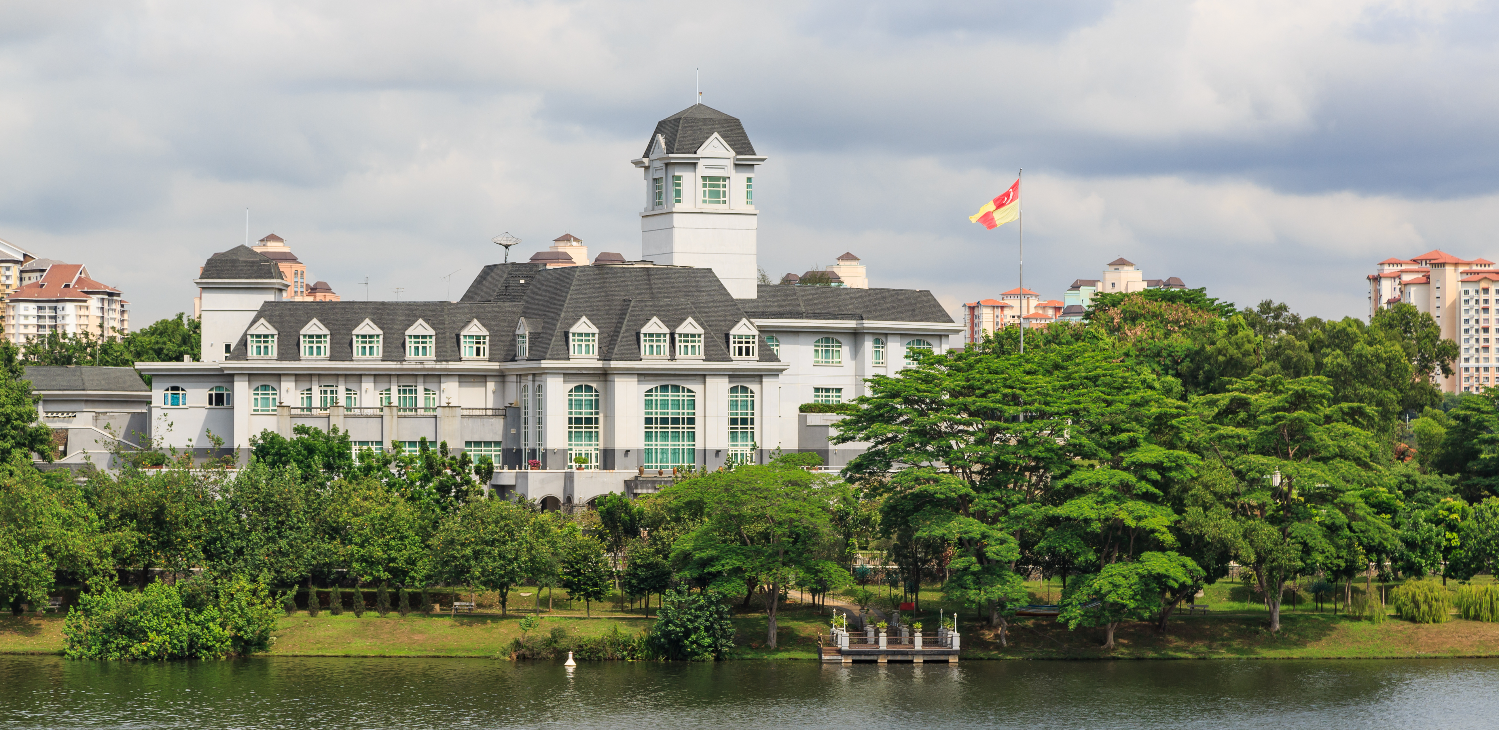 Putrajaya, Malaysia: Istana Darul Ehsan. The Darul Ehsan Palace is one of the royal residences of the Sultan of Selangor.